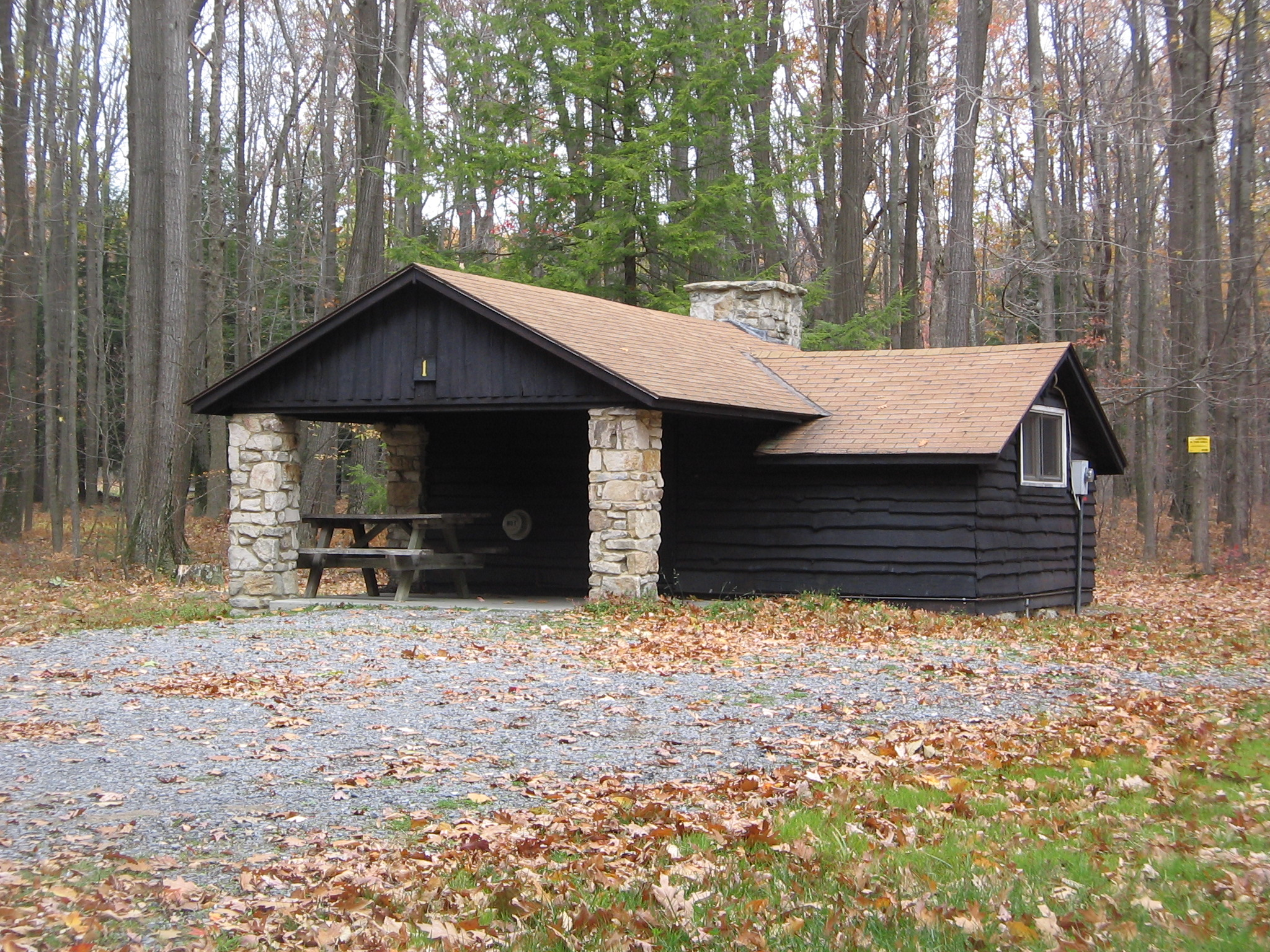 CCC-built Cabin 1 at S.B. Elliott State Park in Pine Township, Clearfield County, Pennsylvania, USA is listed on the National Register of Historic Places.